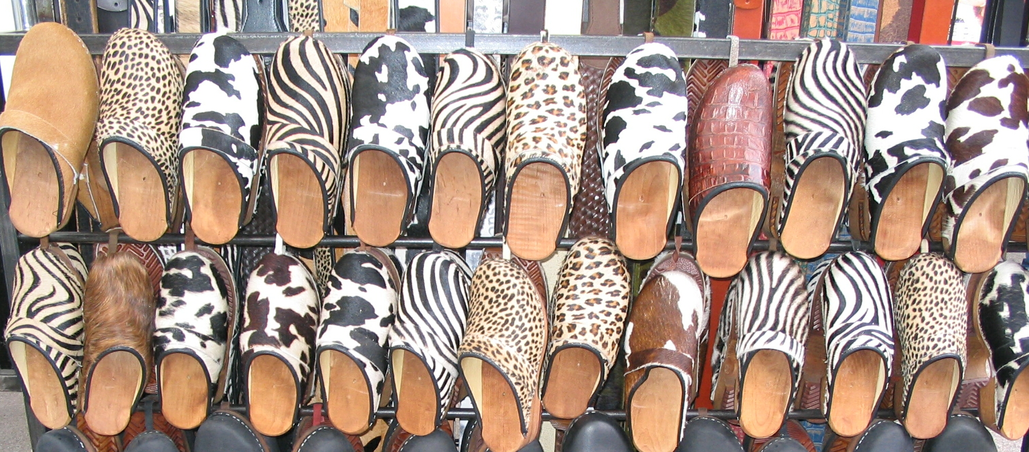 Cow_fur_skin_sandals